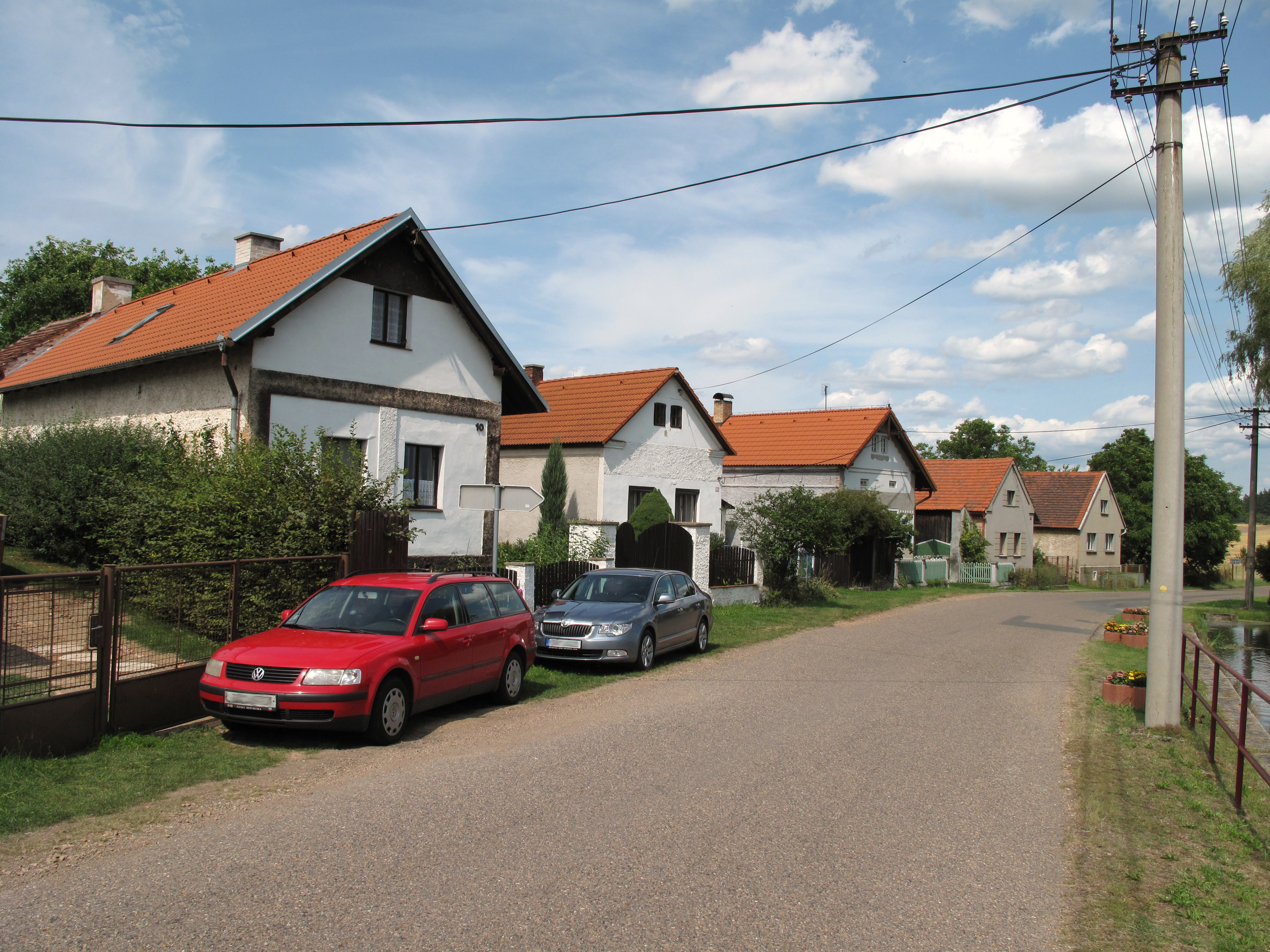 Houses by road in Biskoupky, Rokycany District, Czech Republic.